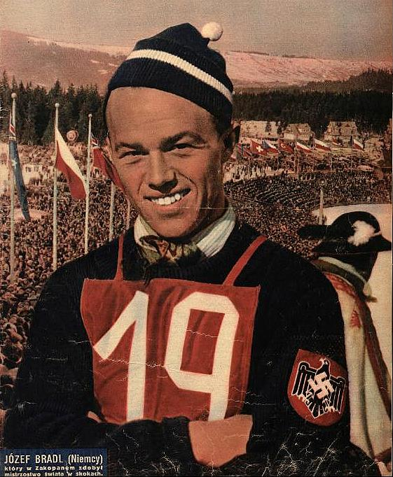 Photo of Josef Bradl from FIS Nordic World Ski Championships 1939 in Zakopane